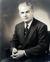 George D. O'Brien, US Representative from Michigan